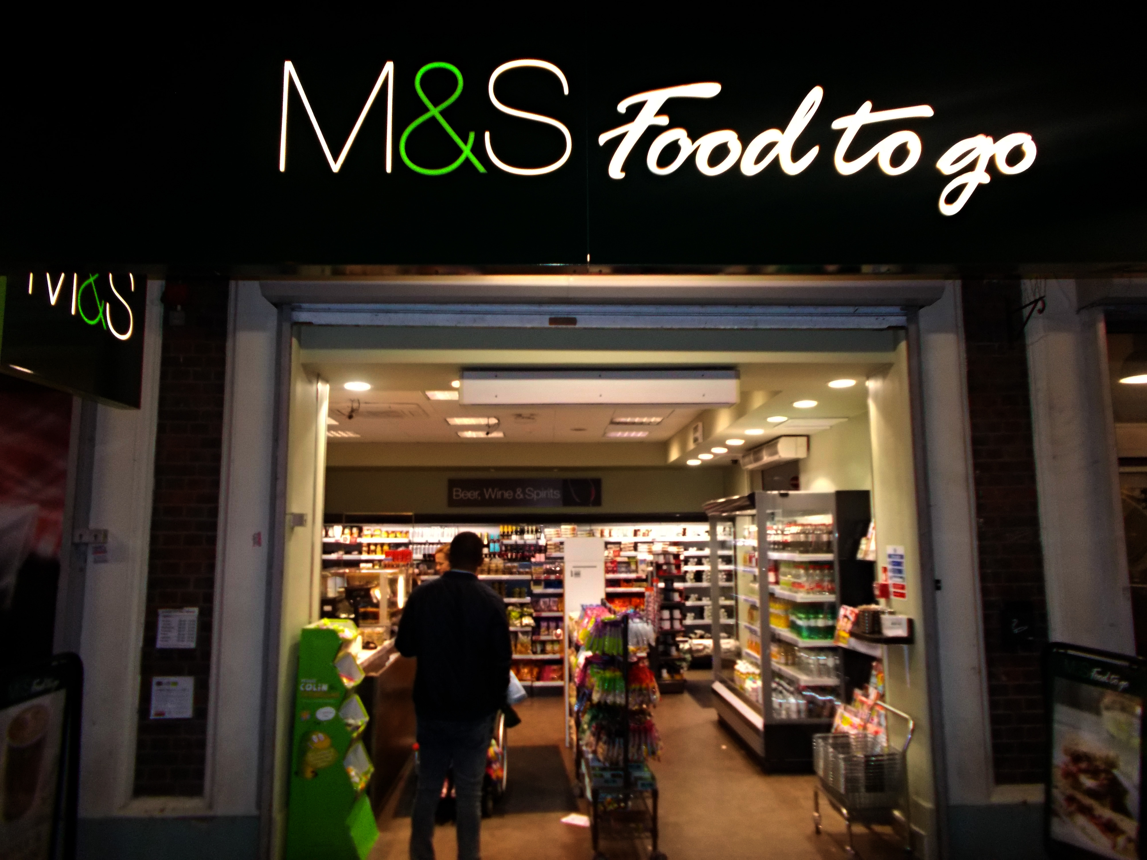 M&S Food to Go, SUTTON, Surrey, Greater London